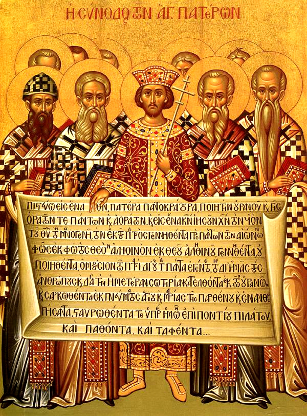 Symbolum Nicaeno-Constantinopolitanum. Icon depicting the First Council of Nicaea.